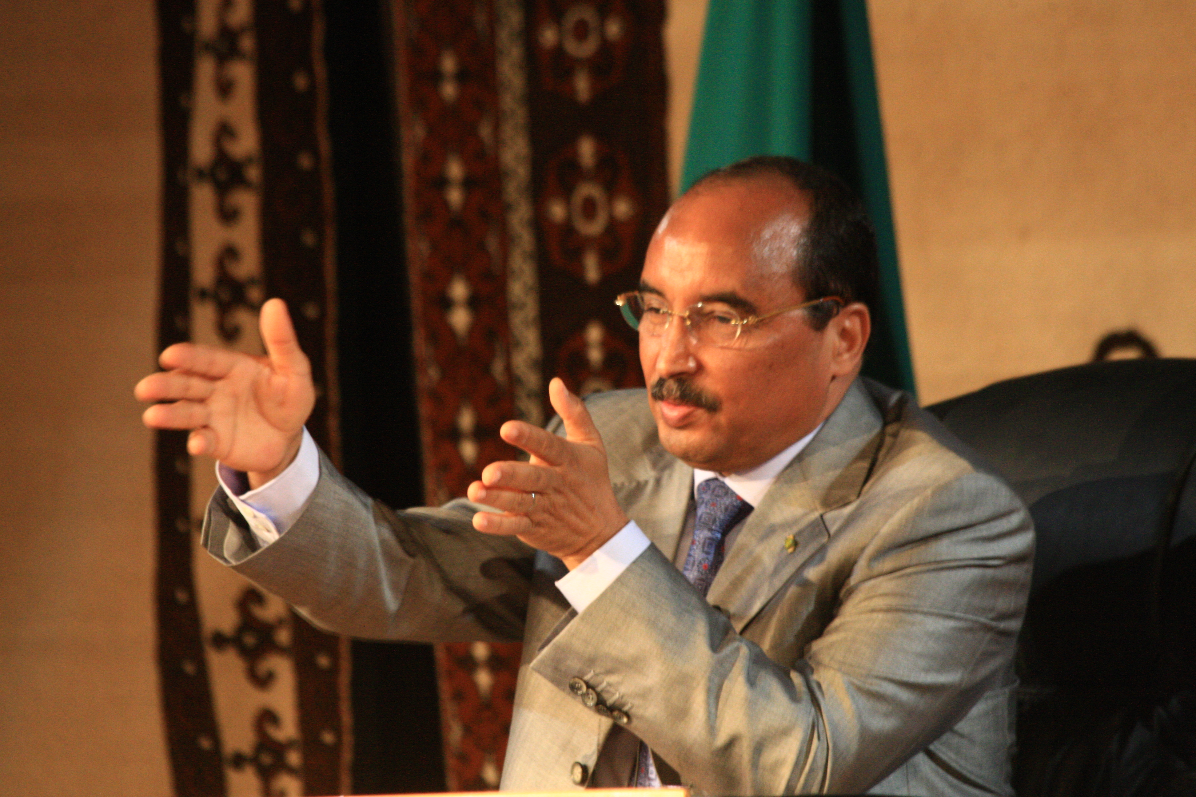 Mauritanian President Mohamed Ould Abdel Aziz says he agrees with youth demands for freedom, reform and jobs.